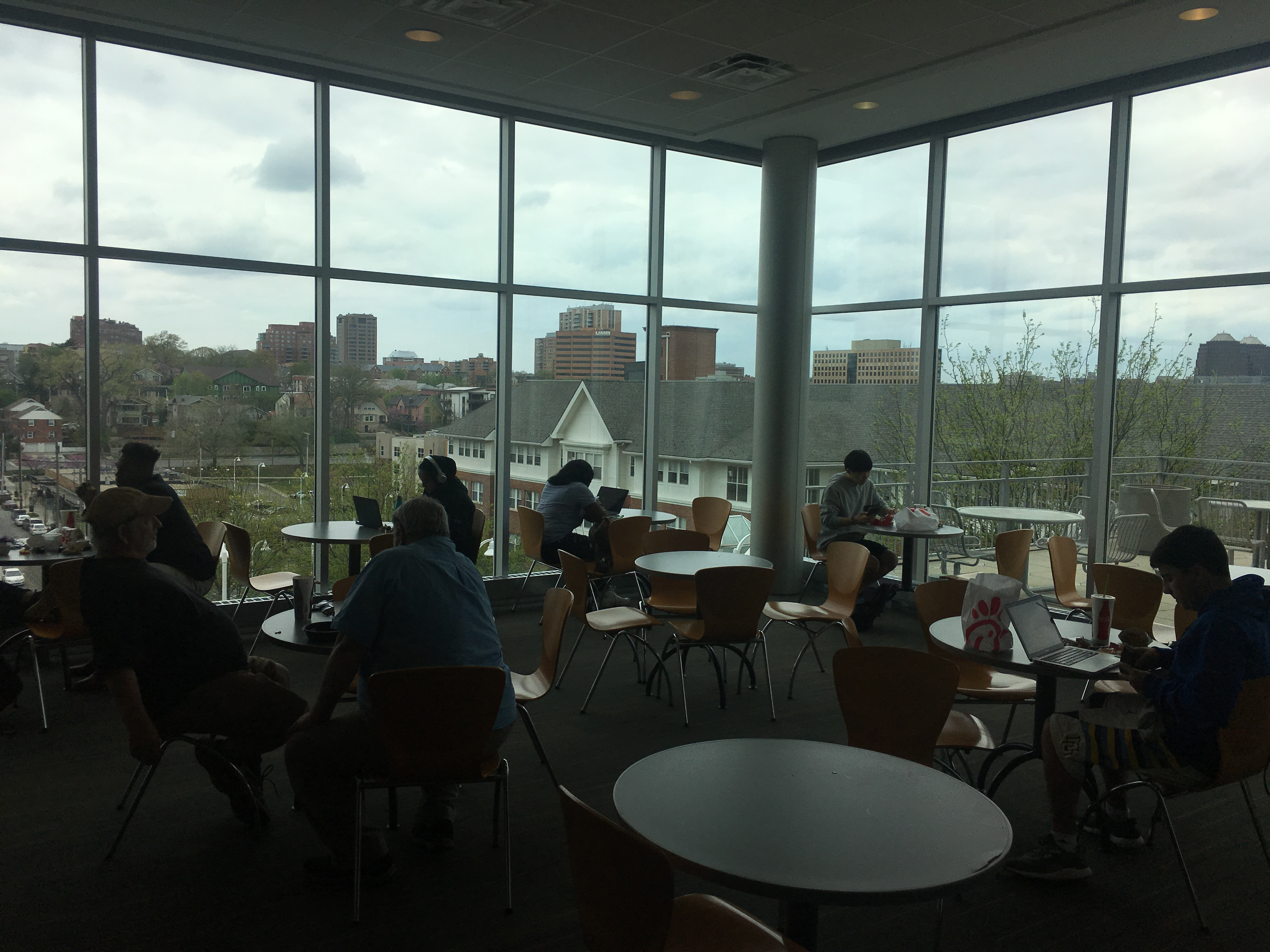 University of Missouri, Kansas City